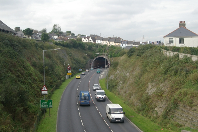 Saltash Tunnel, East portal